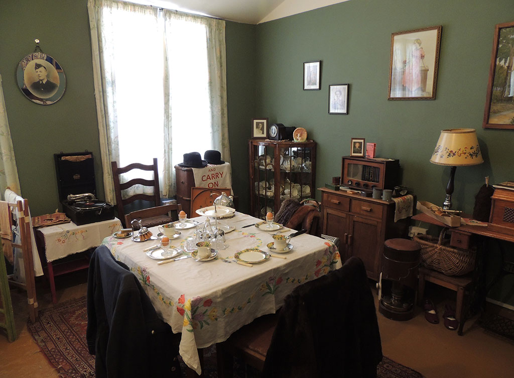 1940's room at Montrose Air Station Heritage Centre Scotland.